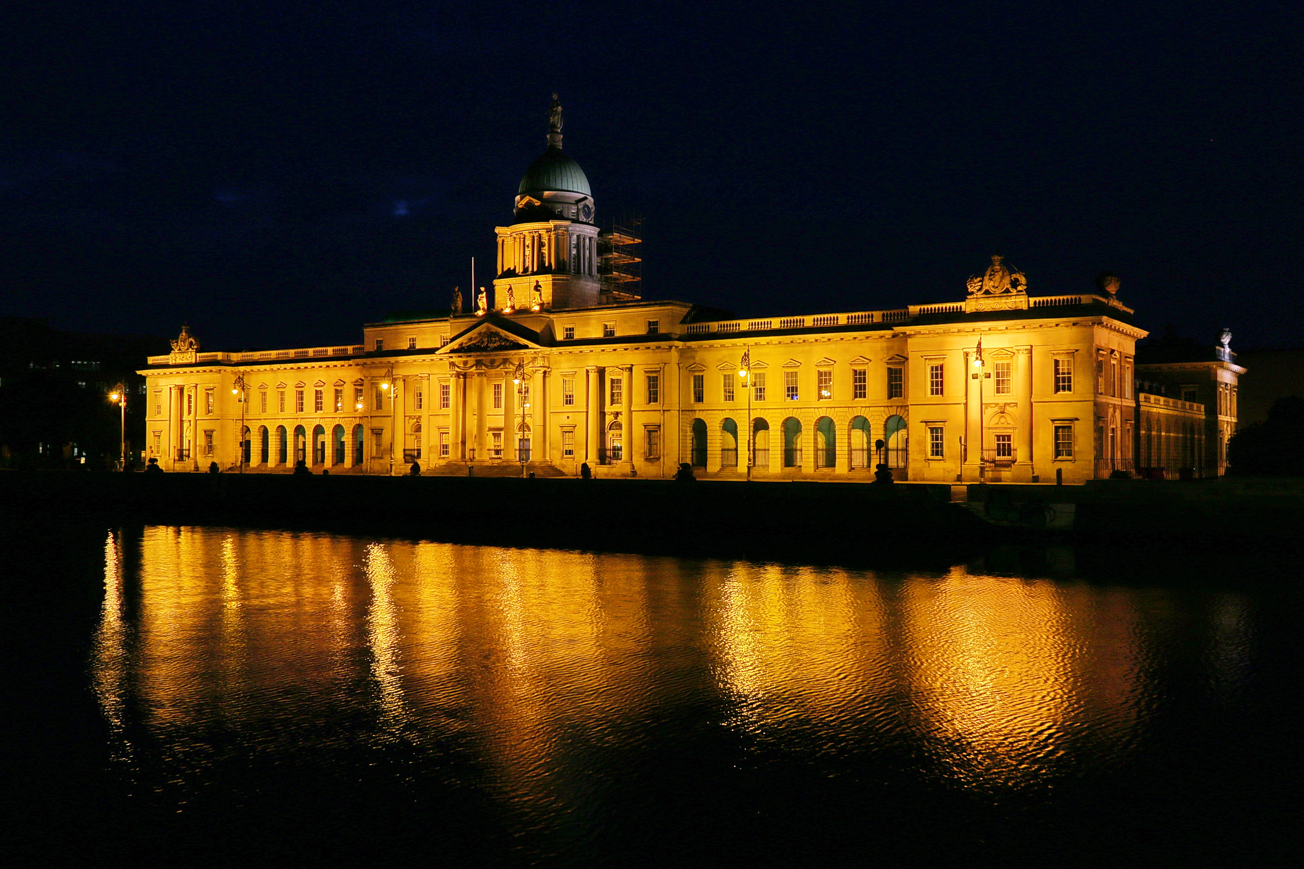 The Custom House & River Liffey, Dublin, Co. Dublin, Ireland